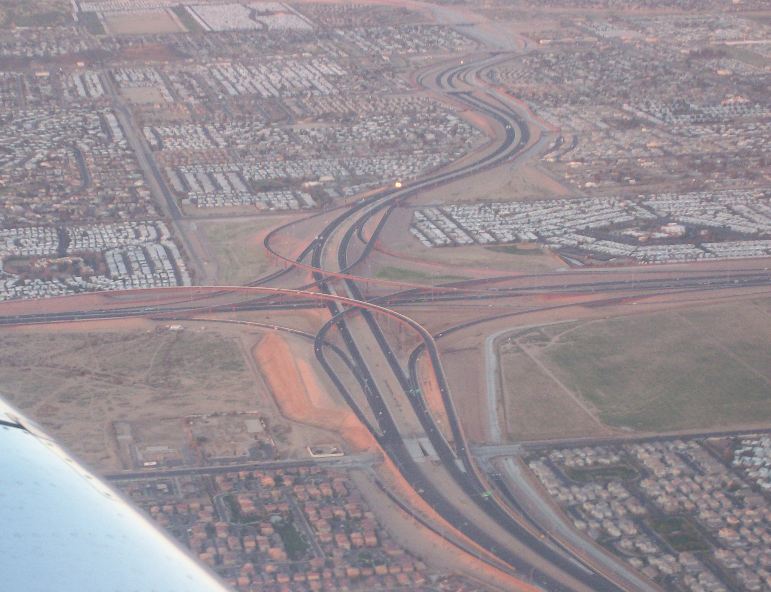 Aerial view of the Super Red Tan Stack interchange in east Mesa, Arizona